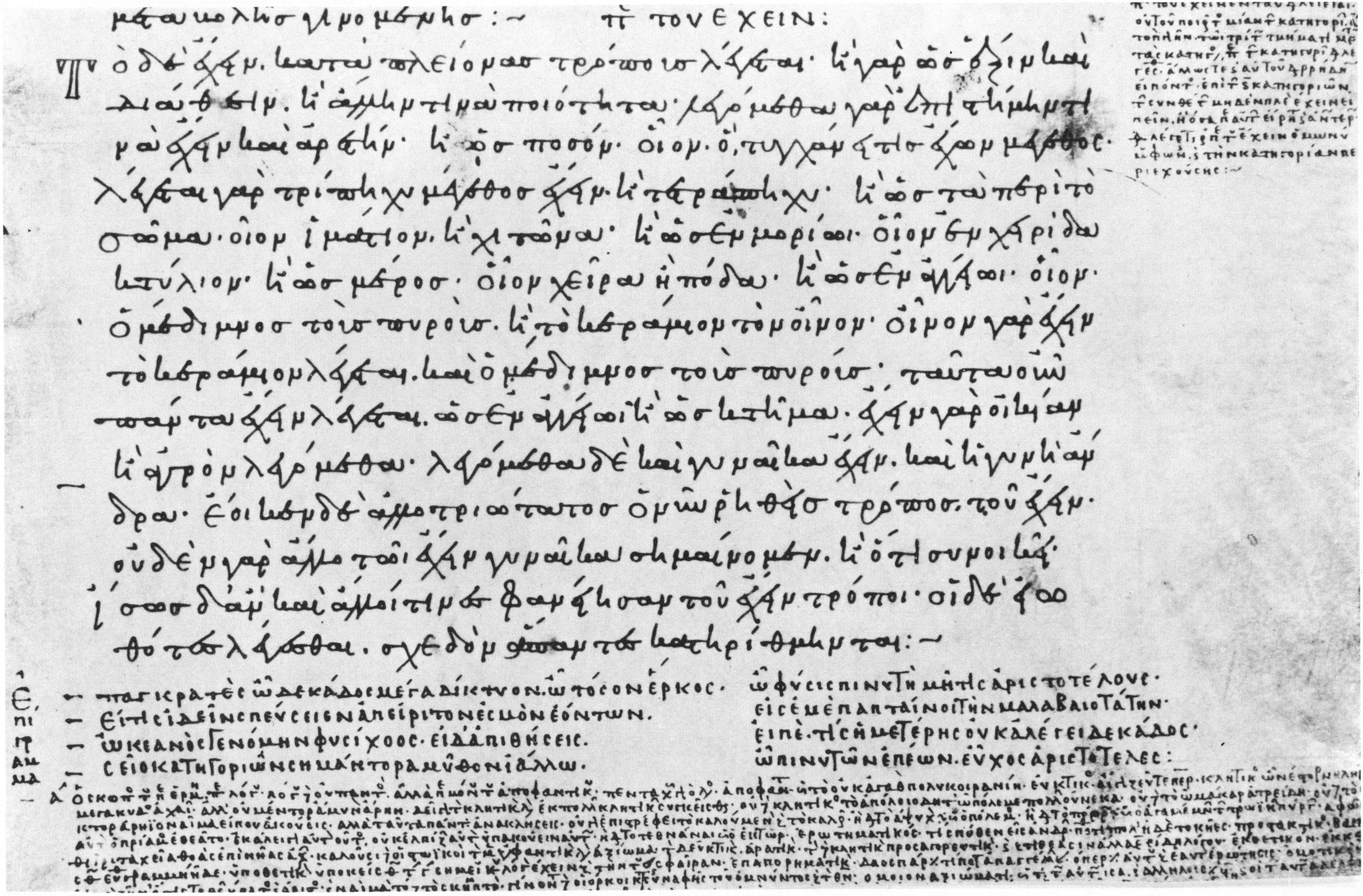 Aristotle, Categories 15b14–32 with scholia in ms. Venice, Biblioteca Marciana, Gr. 201, fol. 26r.